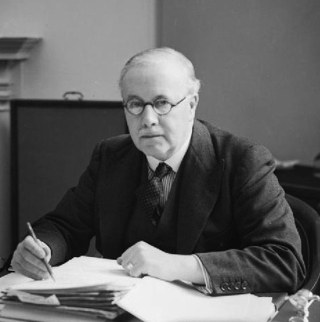 Sir Kingsley Wood, the Secretary of State for Air from September 1939 to April 1940, seated at his desk at the Air Ministry.